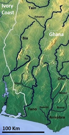 South Ghana with the Bia, the Tano and the Ankobra̠ OSM